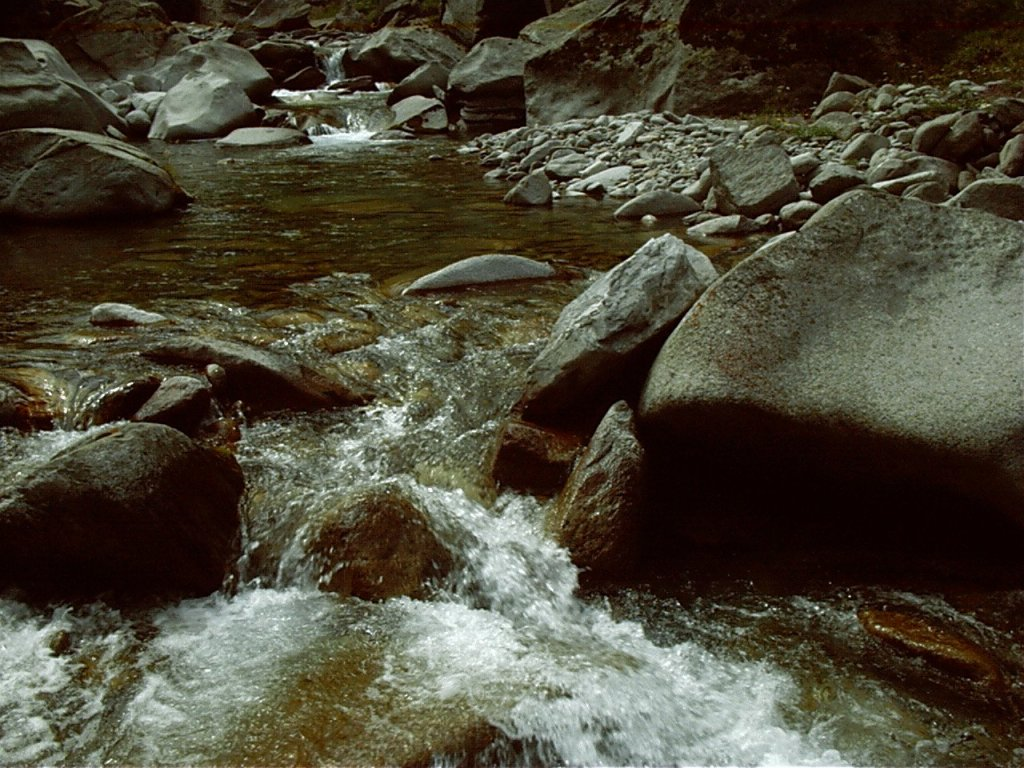 A mountain stream in the canton Grisons (Graubünden) in Switzerland